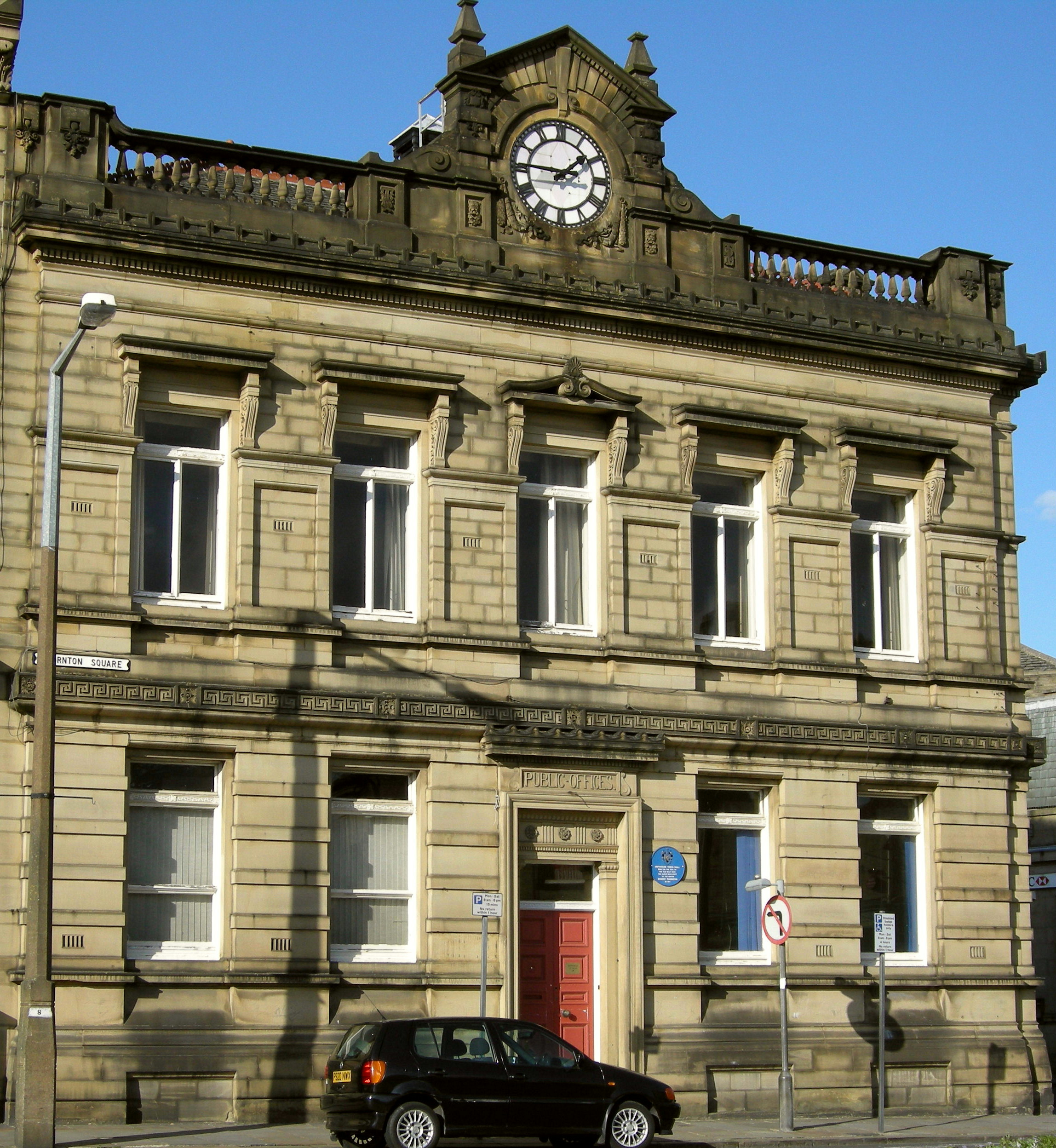 Brighouse Town Hall, Thornton Square, Brighouse, West Yorkshire, England. Picture taken from middle of square (fairly close-to). Another picture taken from the far side of the square, showing the building in context of other buildings, is at File:Brighouse_Town_Hall 001.jpg